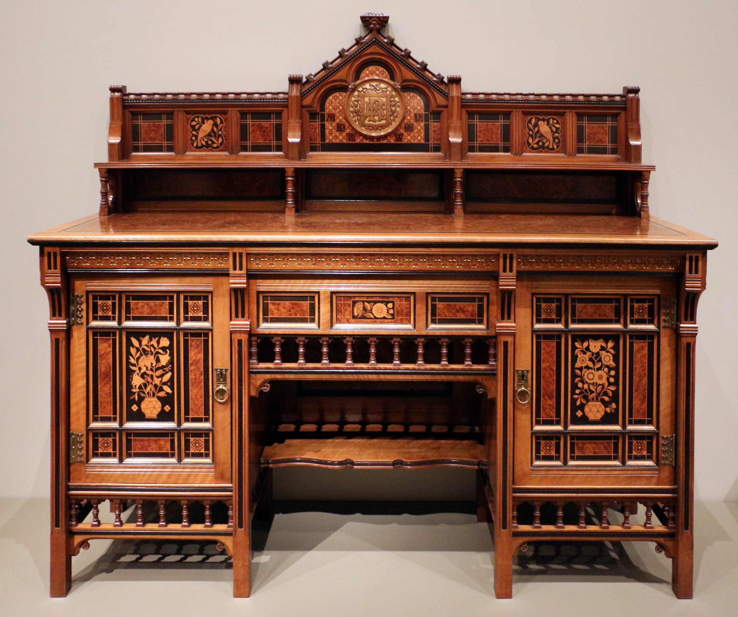 European furniture in the Art Institute of Chicago